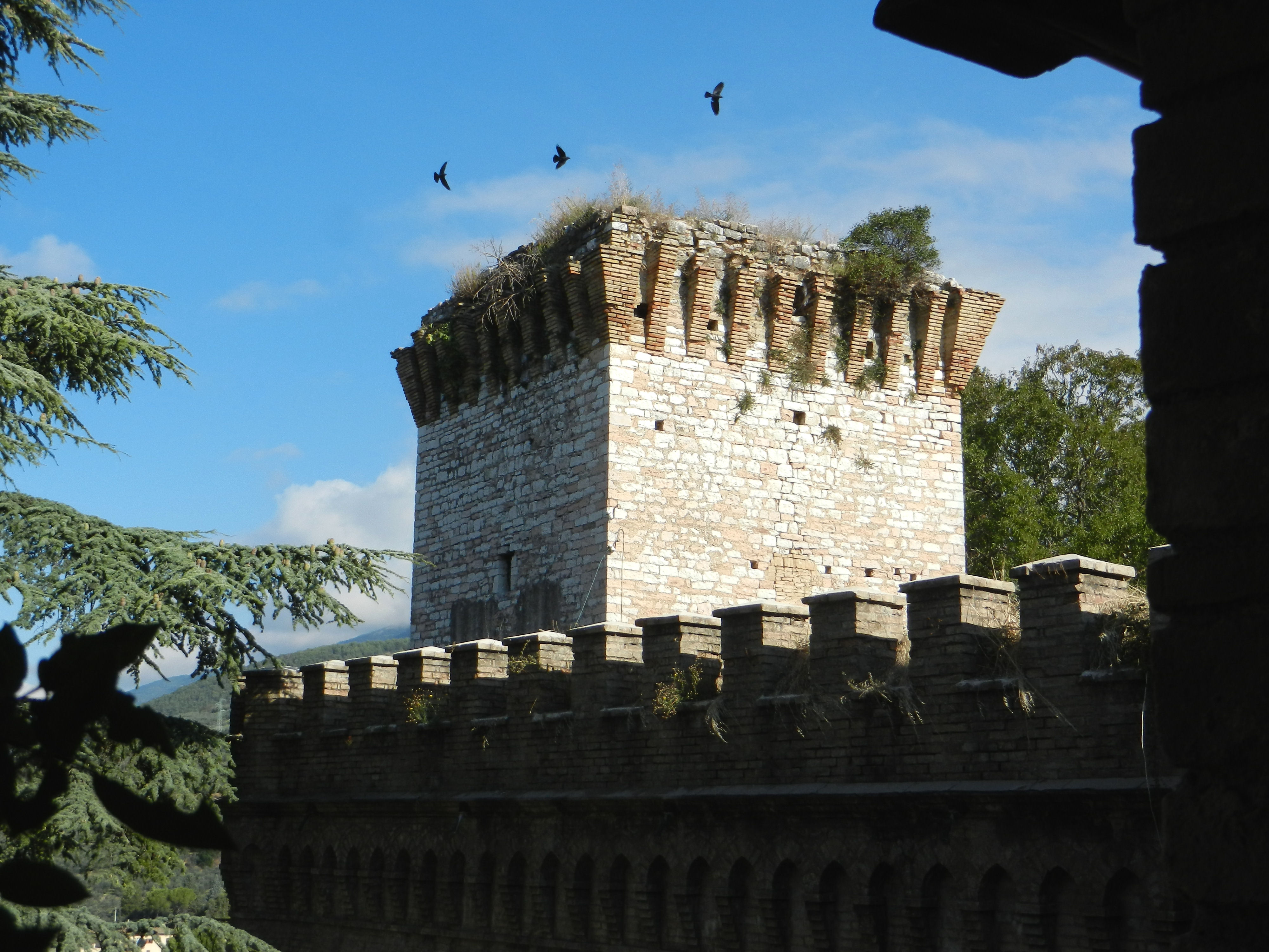 Spello (Umbria, Italy), the tower of the castle